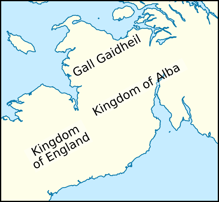 Map showing various regions mentioned in the Wikipedia article concerning Máel Coluim, son of the king of the Cumbrians.